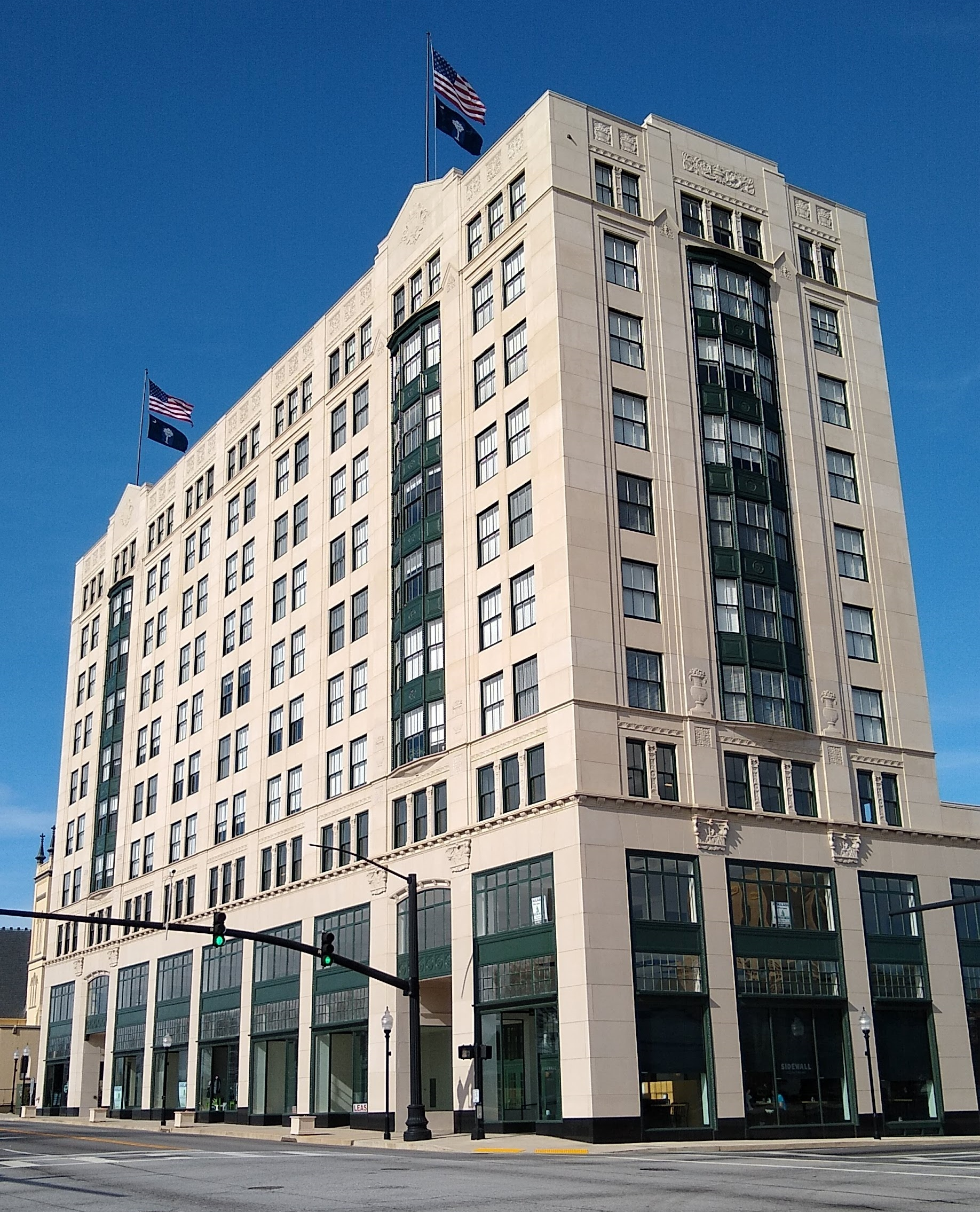 Street-level view of the historic Montgomery Building in Spartanburg